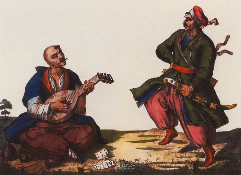 Cossacks' lesure